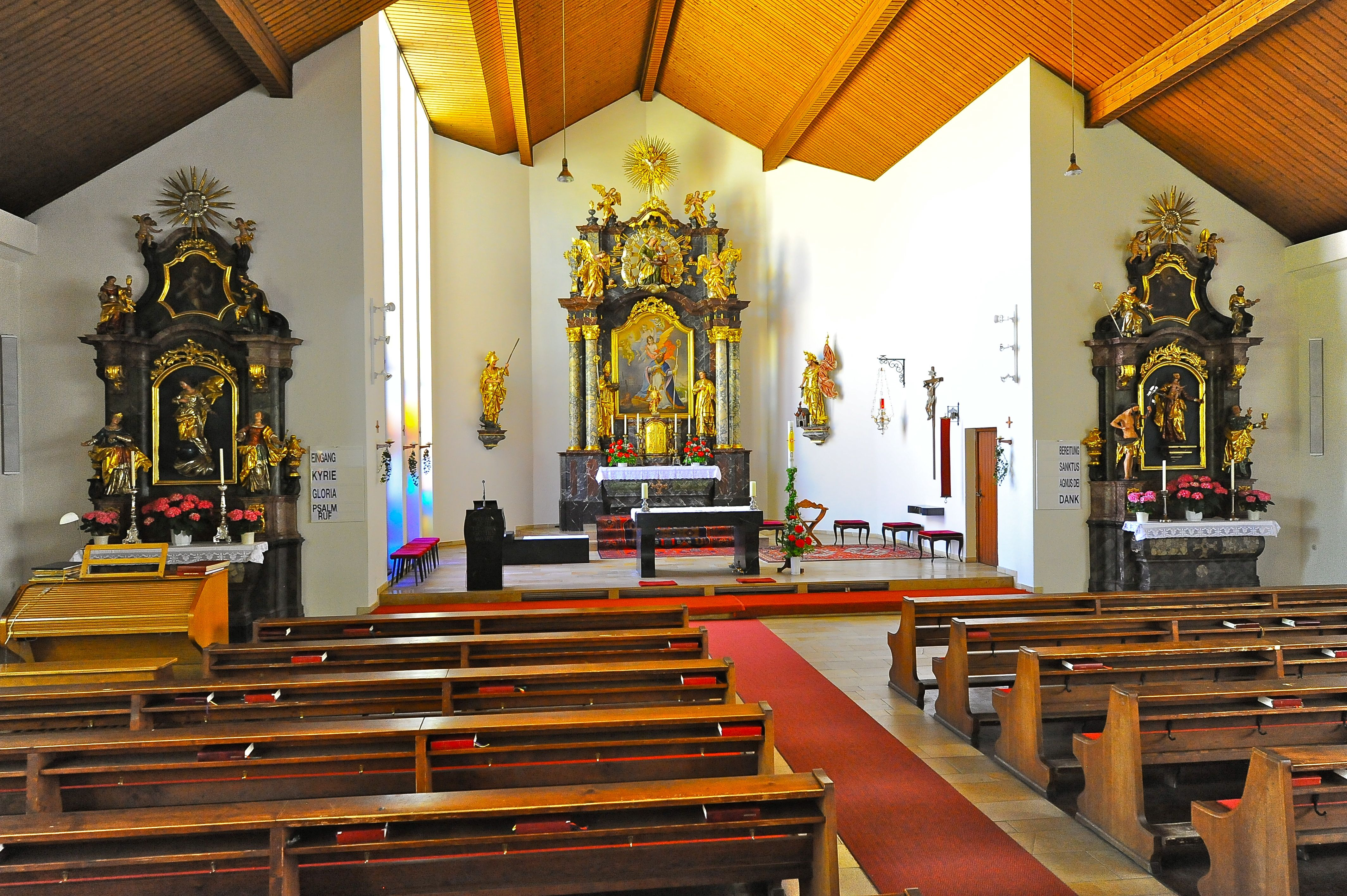 Interior of the parish church Saint Martin on the Kirchengasse #22, municipality Ferlach, district Klagenfurt Land, Carinthia, Austria, EU